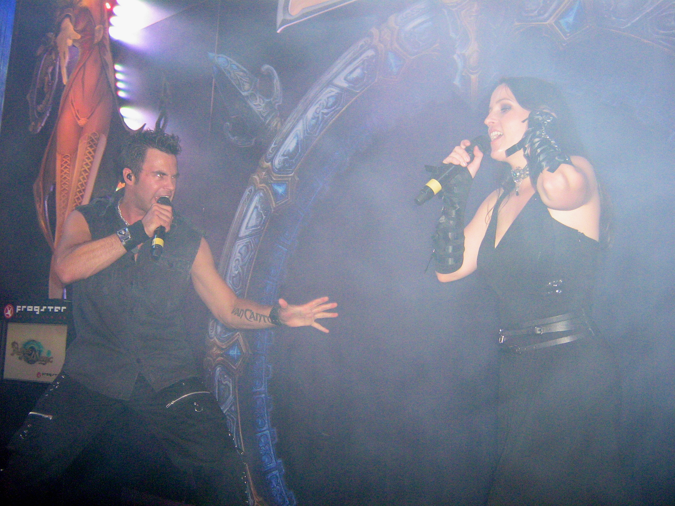 Van Canto